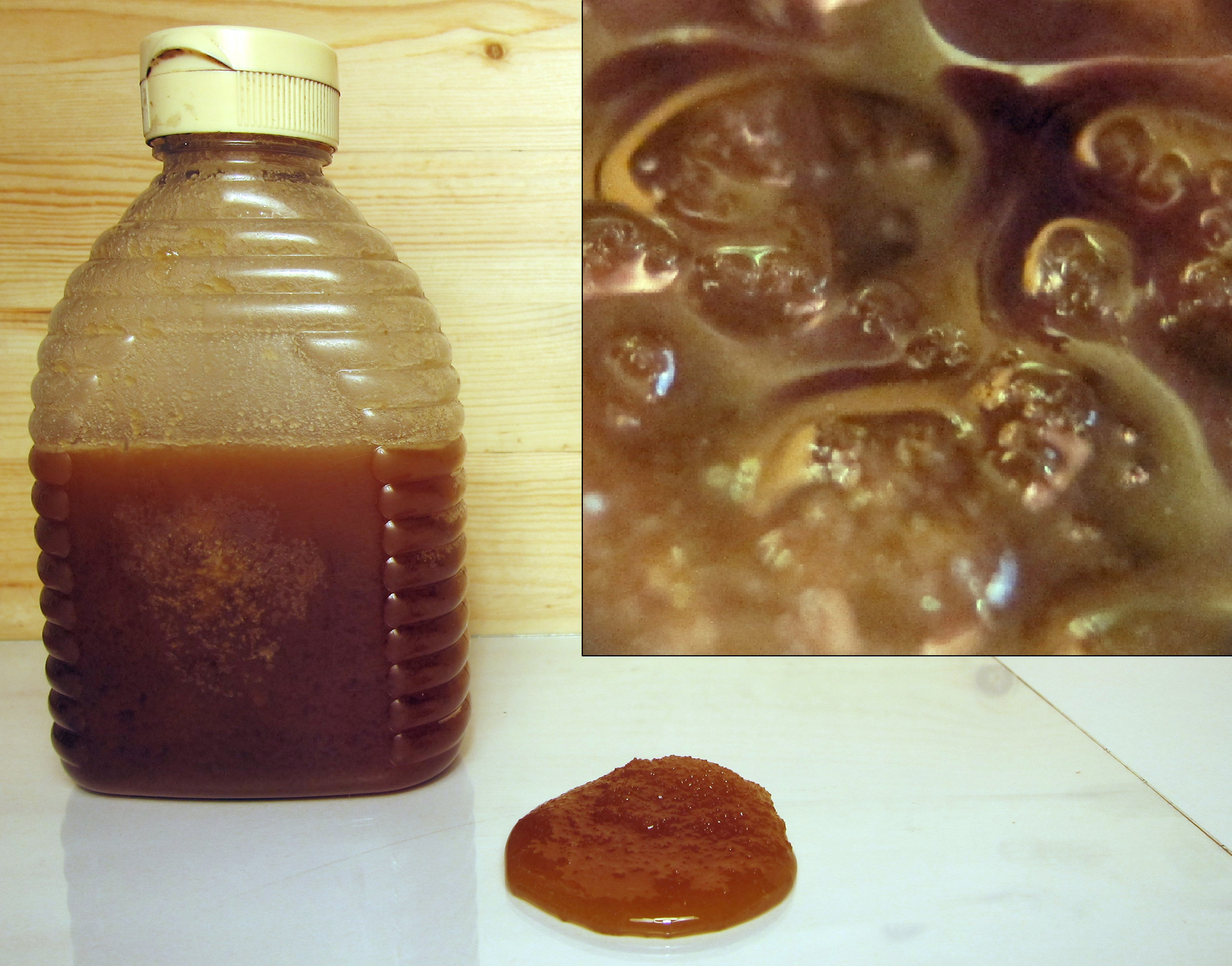 Crystallized honey, both in the jar and out of it. The inset show a close-up of the crystallized honey, magnified at 50x.